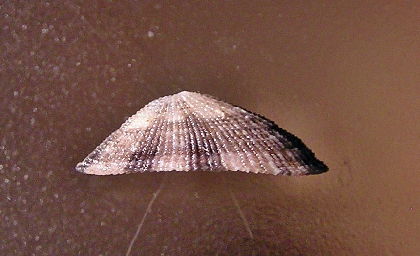 Diodora inaequalis, Sowerby, 1835; a keyhole limpet from the family Fissurellidae; Mexico